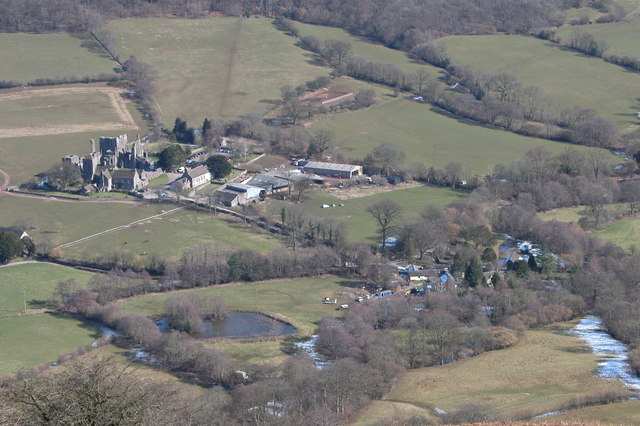 Llanthony viewed from the west. Looking down on Llanthony from Black Mountains, the ruins of Llanthony Priory are on the left.